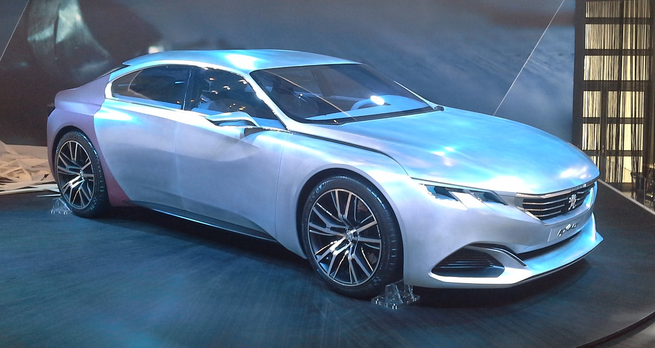 Peugeot Exalt Concept photographed at the Auto China 2014, Beijing, China.